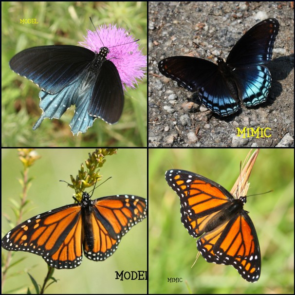 Top Left is the Pipevine Swallowtail (Battus philenor) Top Right is the Red Spotted Purple (Limenitis arthemis) Bottom Left is the Monarch (Danaus plexippus) Bottom Right is the Viceroy (Limenitis archippus) Mimicry in nature is fairly common. In most cases the one that mimics gains survival benefits by mimicking warning colors or patterns. For example an animals color may indicate it is toxic. The orange Monarch stores toxins it ingests as a caterpiller. Predators learn this (instinct?) and so avoid the Viceroy which has an uncanny resemblance to the Monarch. The same is true between the Pipevine Swallowtail and its mimic the Red Spotted Purple.